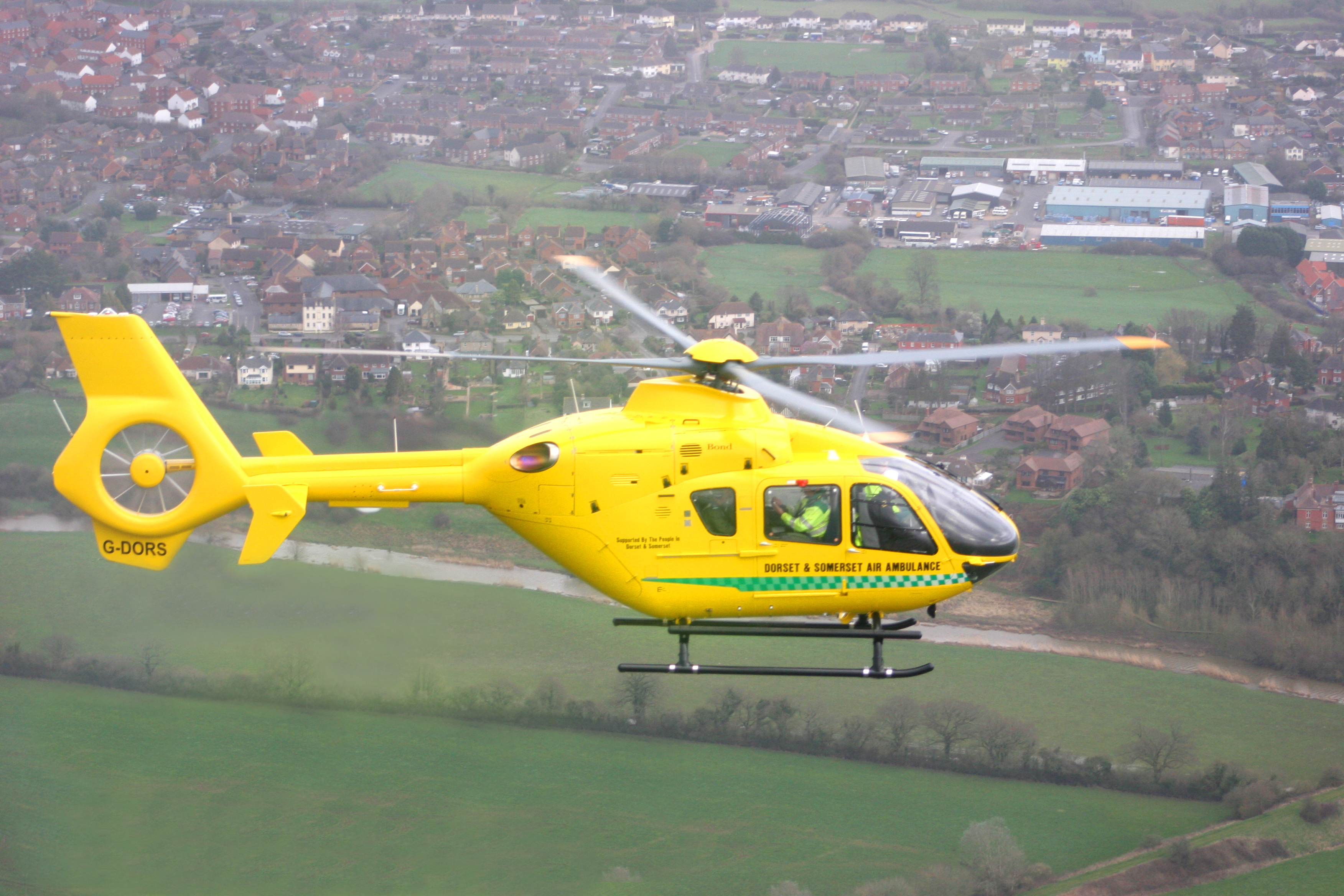 The Dorset & Somerset Air Ambulance over Sturminster Newton, Dorset. Eurocopter EC135